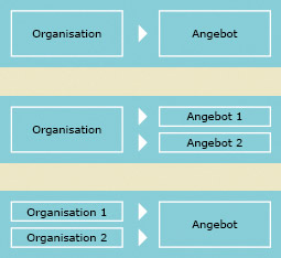 This overview shows the structure of the SRS along the organisations under consideration as well as their respective programms offered